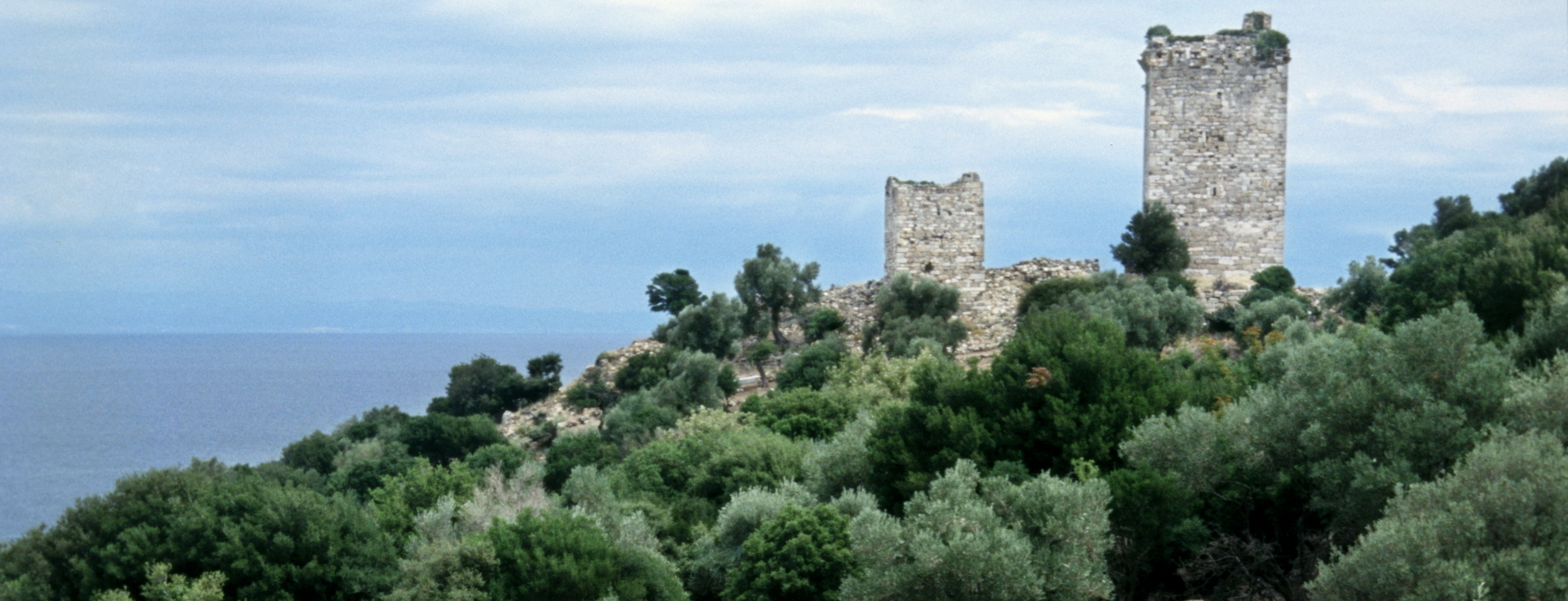 Samothrace island, towers of Gattilusio in Paleopolis